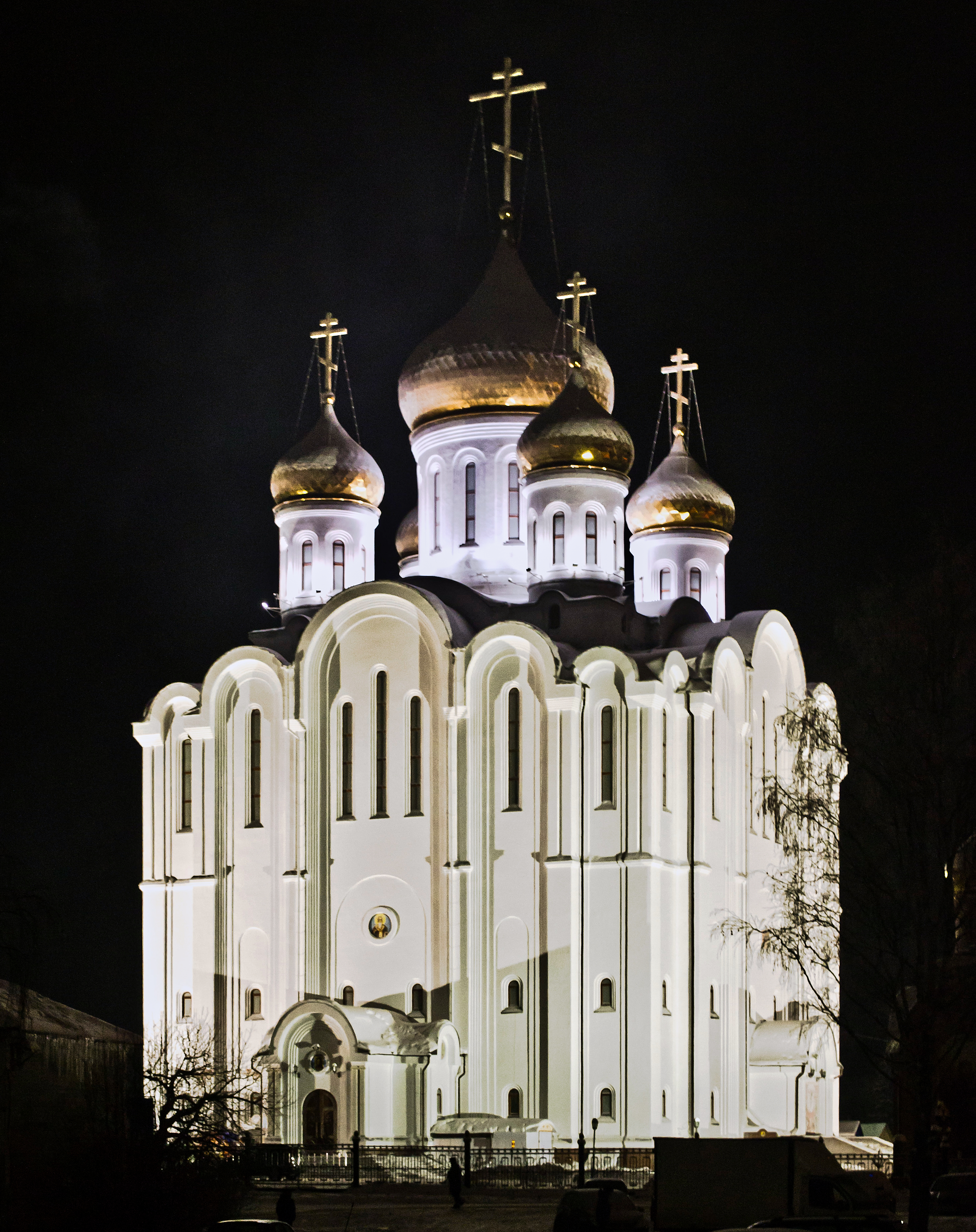 Stefanovskiy Cathedral in Syktyvkar city.